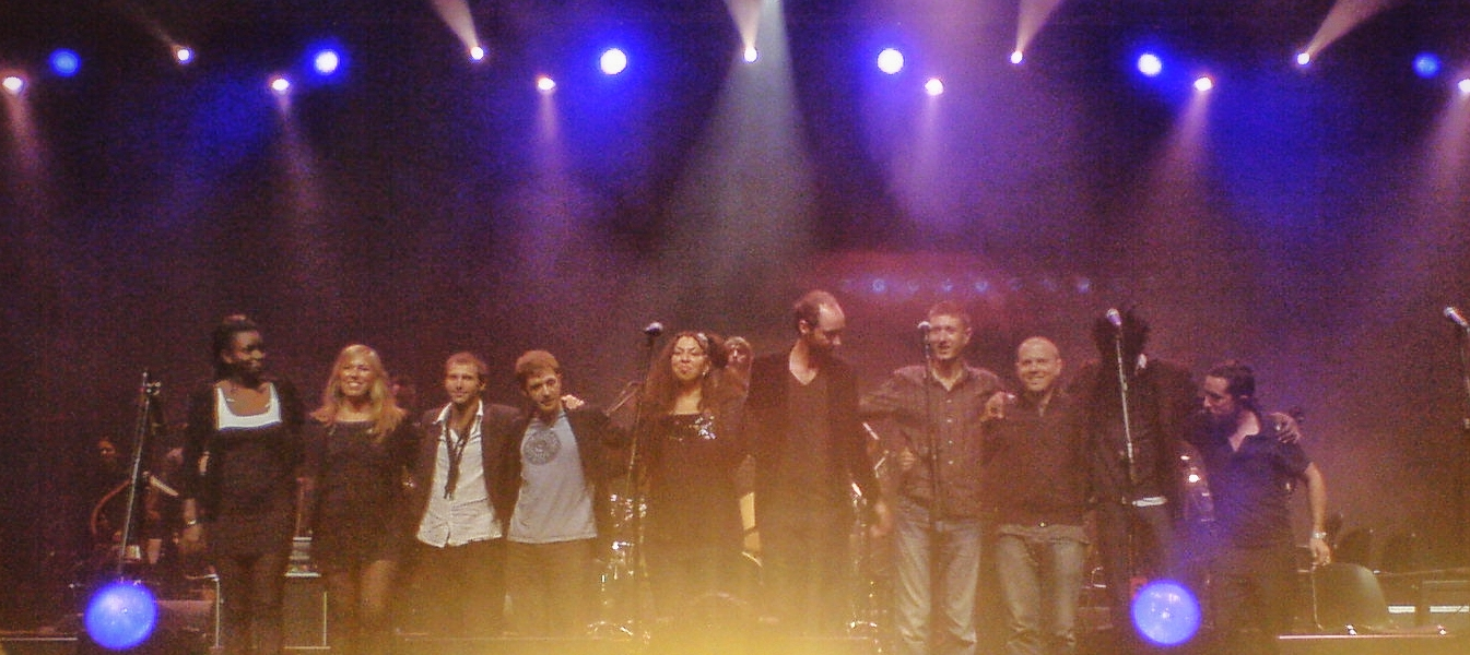 The Cinematic Orchestra live at Cracov